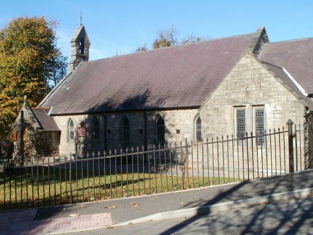 St Paul's Church, Blaenavon. Church in Wales church on the corner of Llanover Road and Middle Coedcae Road. Built in only 6 months, it was opened and consecrated by the Bishop of Llandaff in October 1893.